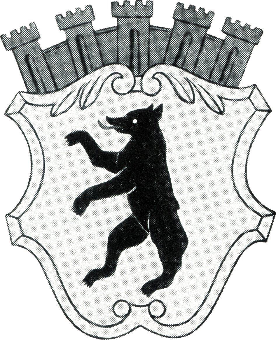 Small Coat of arms of Berlin from 1900.